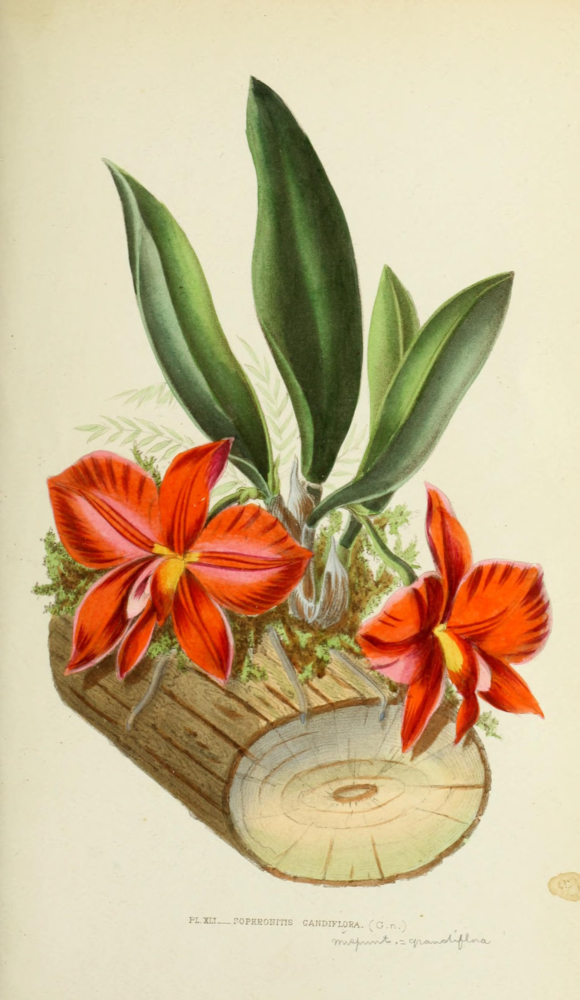 Les orchidées,. Paris,J. Rothschild,1880.. This botanical illustration of orchids is from 1880 publication by E. De Puydt, Les Orchidees, Editor - J. Rothschild; The scientific botanical name of each orchid is at the bottom of the plate. Archived at (1) Biodiversity Heritage Library; (2) Botanical Museum of Harvard University. For text and discussion The photograph published in 1880 qualifies for license under PD-Art